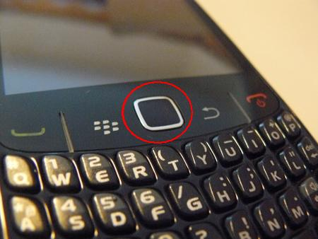 The picture Trackpad(or Touchpad) of the Blackberry Curve 8520 in the red circle